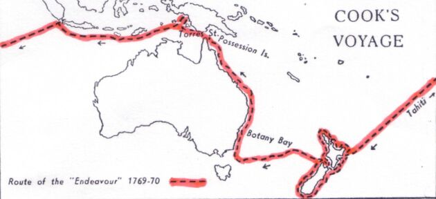 Map of Captain Cook's route to Australia and New Zealand. This image is of Australian origin and is now in the public domain because its term of copyright has expired. According to the Australian Copyright Council (ACC), ACC Information Sheet G023v16 (Duration of copyright) (Feb 2012). Type of materialCopyright has expired if ... A Photographs or other works published anonymously, under a pseudonym or the creator is unknown:taken or published prior to 1 January 1955 B Photographs (except A):taken prior to 1 January 1955 C Artistic works (except A & B):the creator died before 1 January 1955 D Published editions1 (except A & B):first published more than 25 years ago E Commonwealth or State government owned2 photographs and engravings:taken or published more than 50 years ago and prior to 1 May 1969 1 means the typographical arrangement and layout of a published work. eg. newsprint. 2owned means where a government is the copyright owner as well as would have owned copyright but reached some other agreement with the creator. When using this template, please provide information of where the image was first published and who created it.